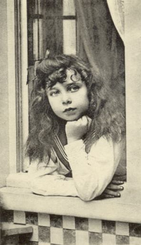 Princess Elisabeth of Hesse looks out of her "play house" in Wolfsgarten.